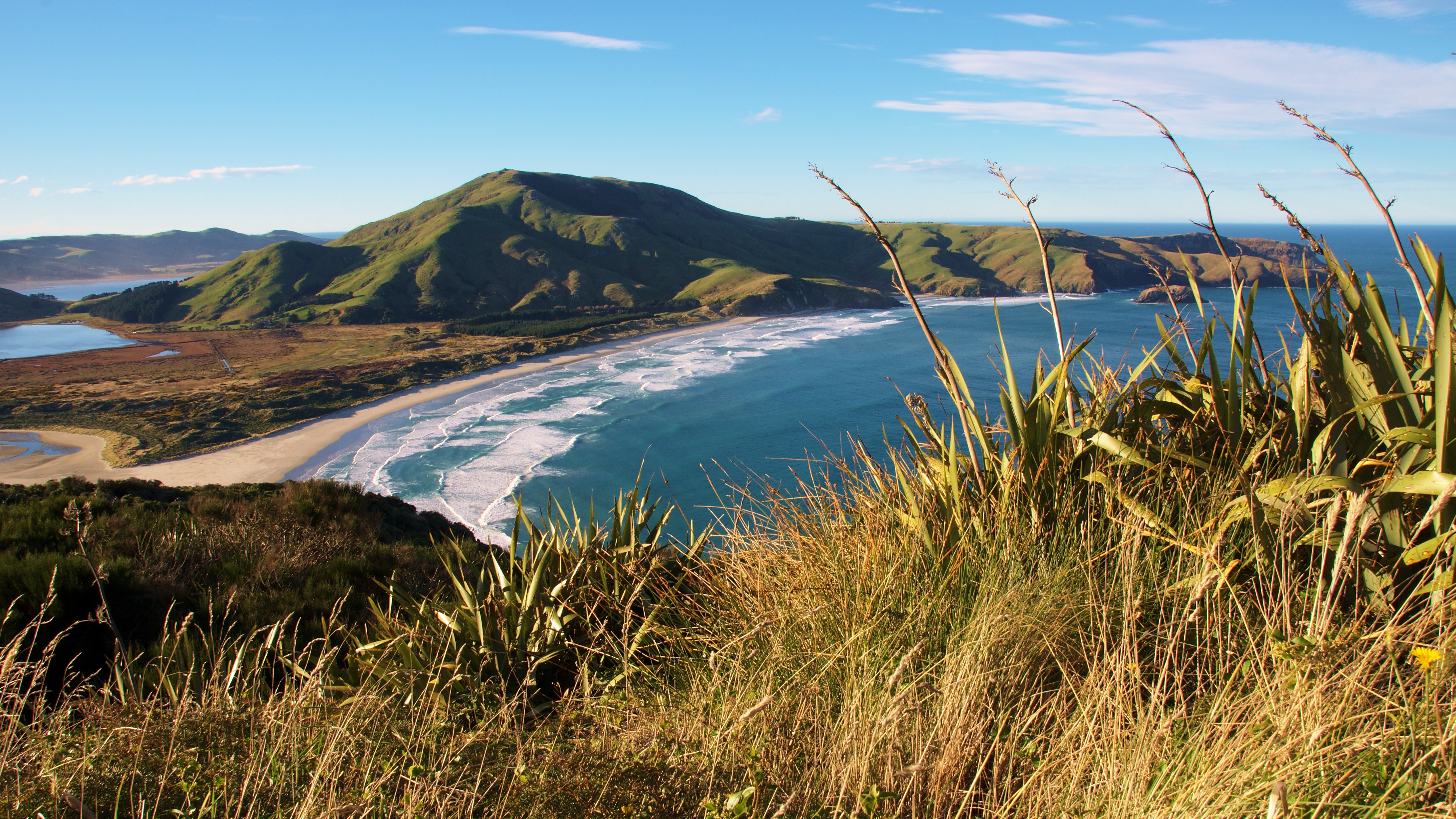 Mount Charles (Poatiri, 408 metres), Allans Beach, and Cape Saunders, Otago Peninsula, Dunedin, New Zealand